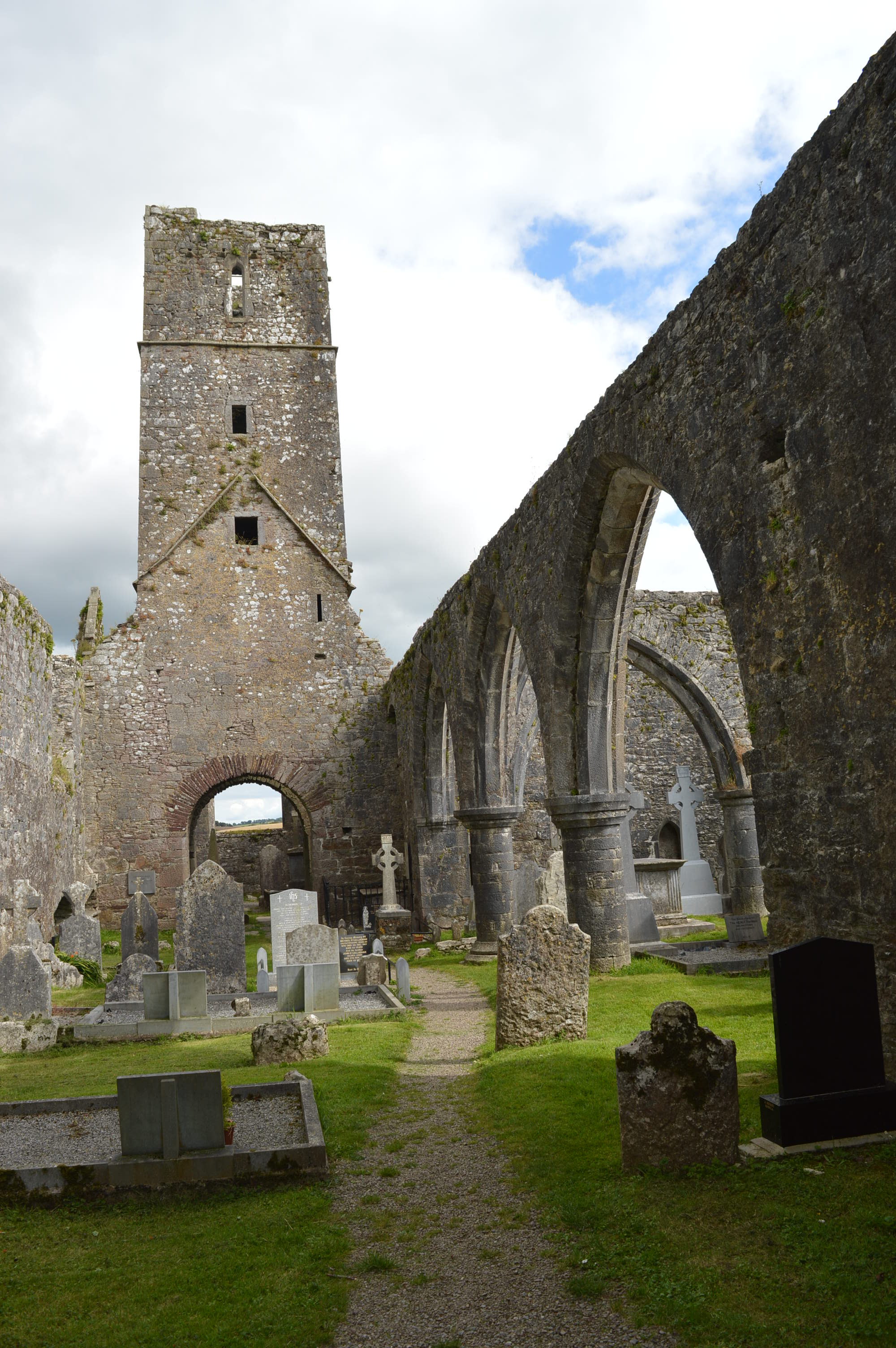 Kilcrea Abbey Friary Tower overlooking the Graves